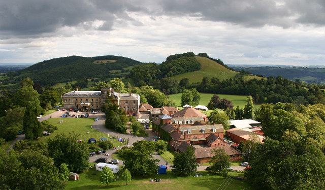 Abberley Hall School, Walsgrove & Woodbury Hills